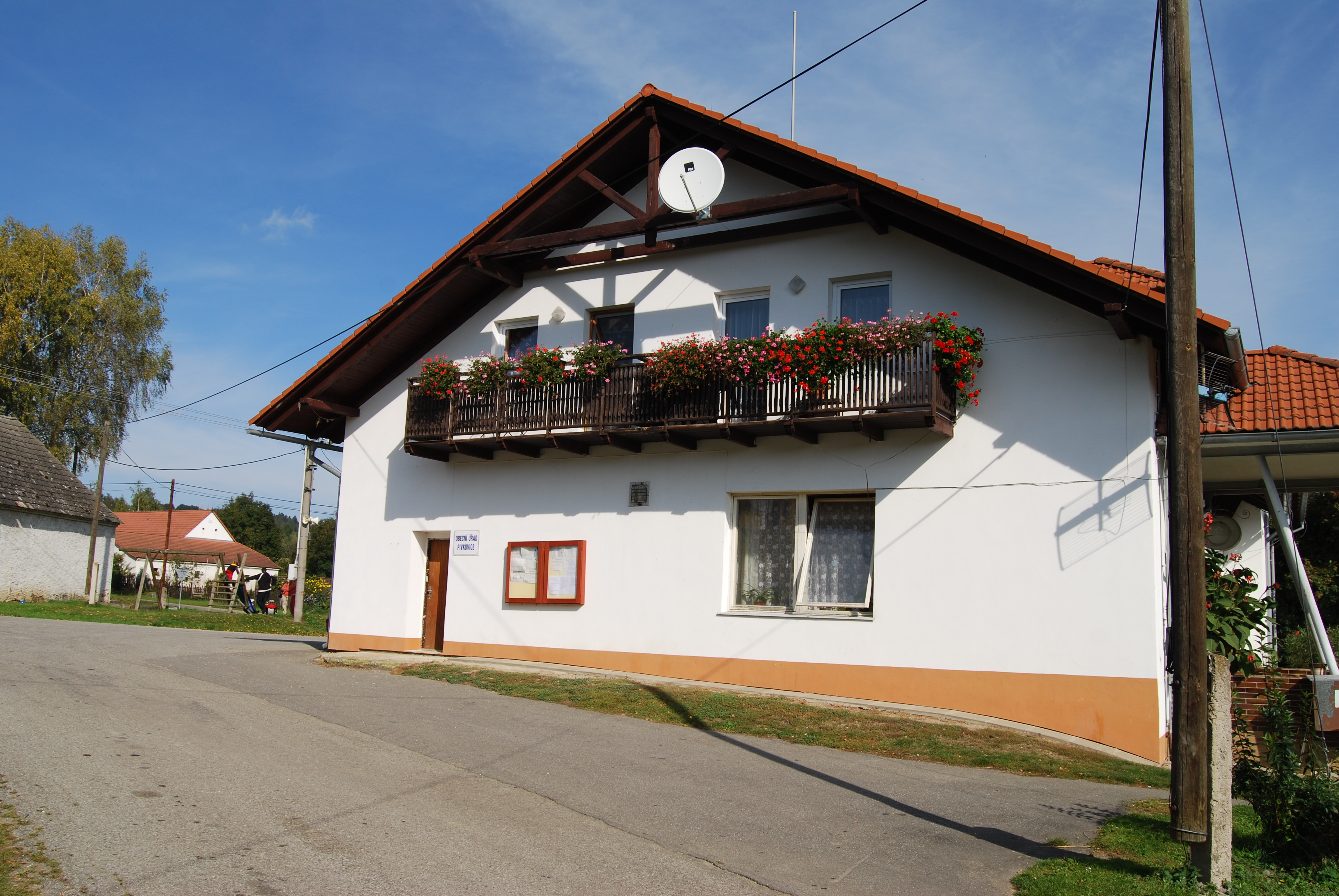 Pivkovice village in Strakonice District, Czech Republic. Municipality office